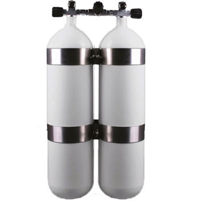 Dive cylinder twin 12